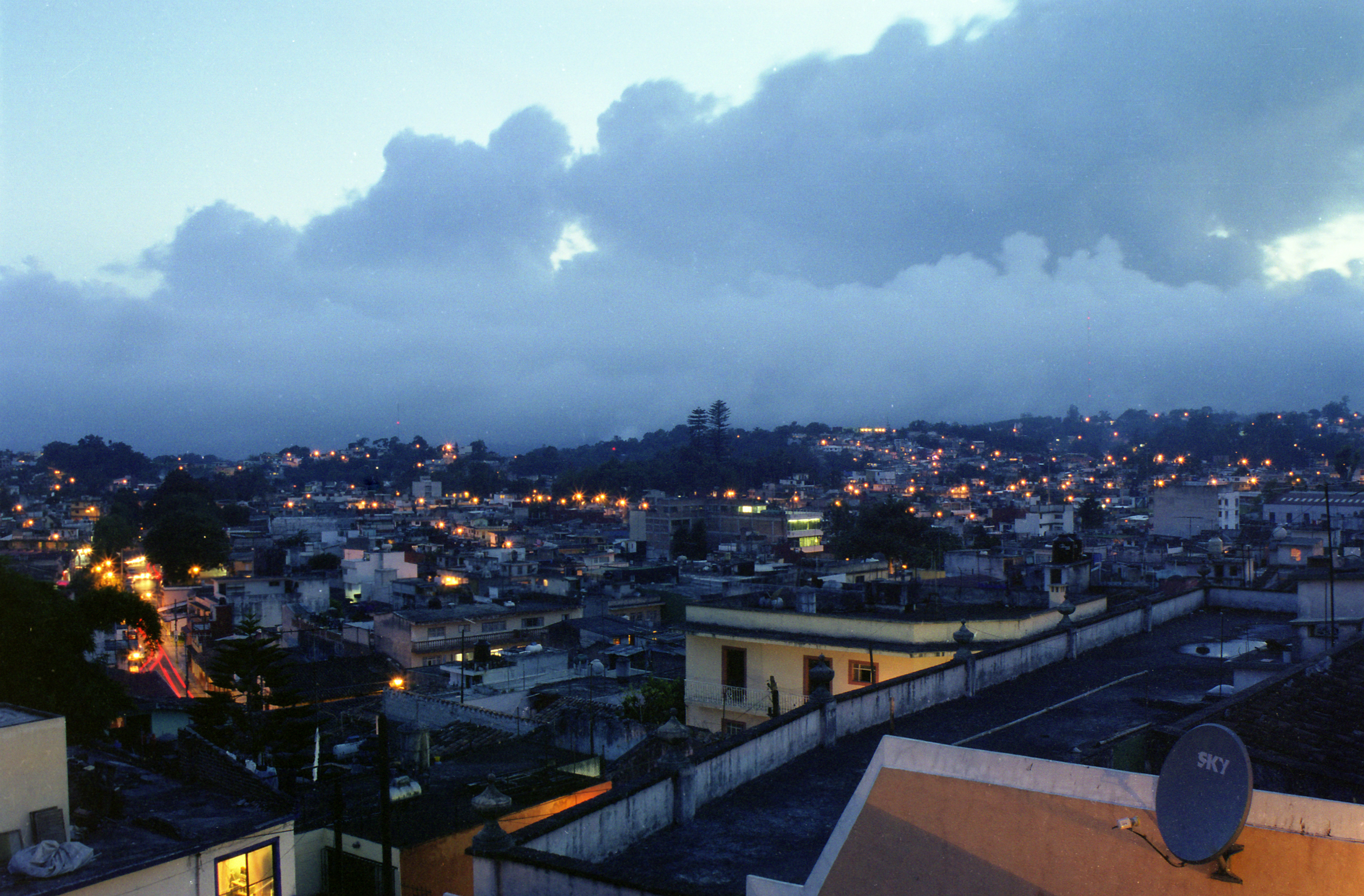 A view of Jalapa/Xalapa, Veracruz, Mexico from a cafe in the evening